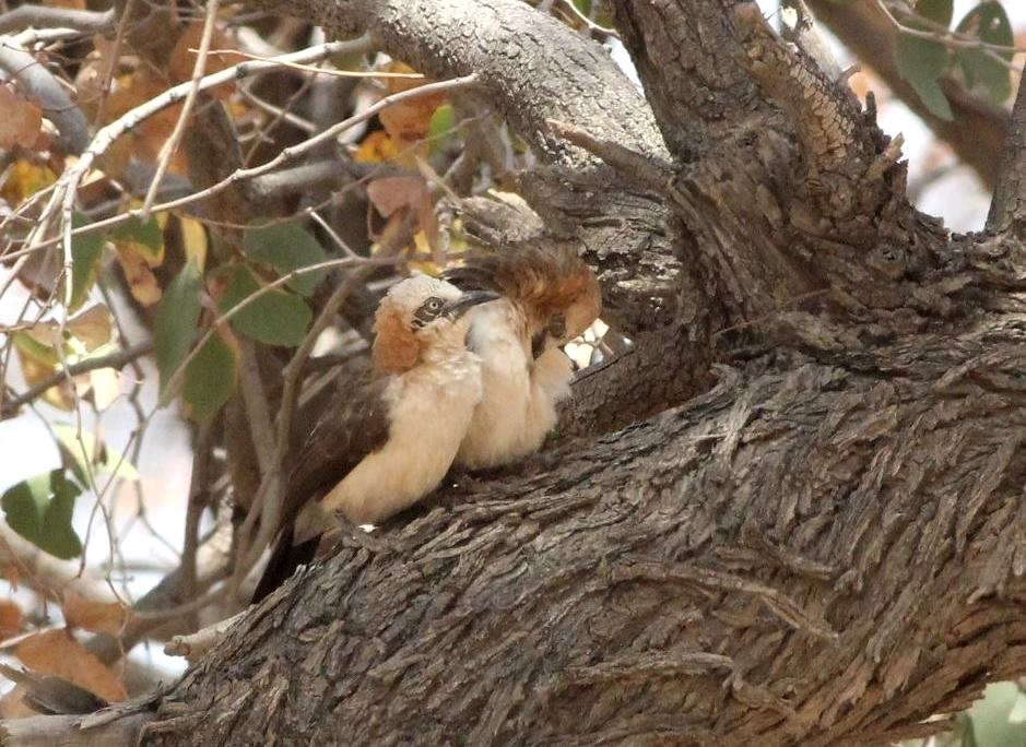 Bare-cheeked babblers in northwestern Namibia